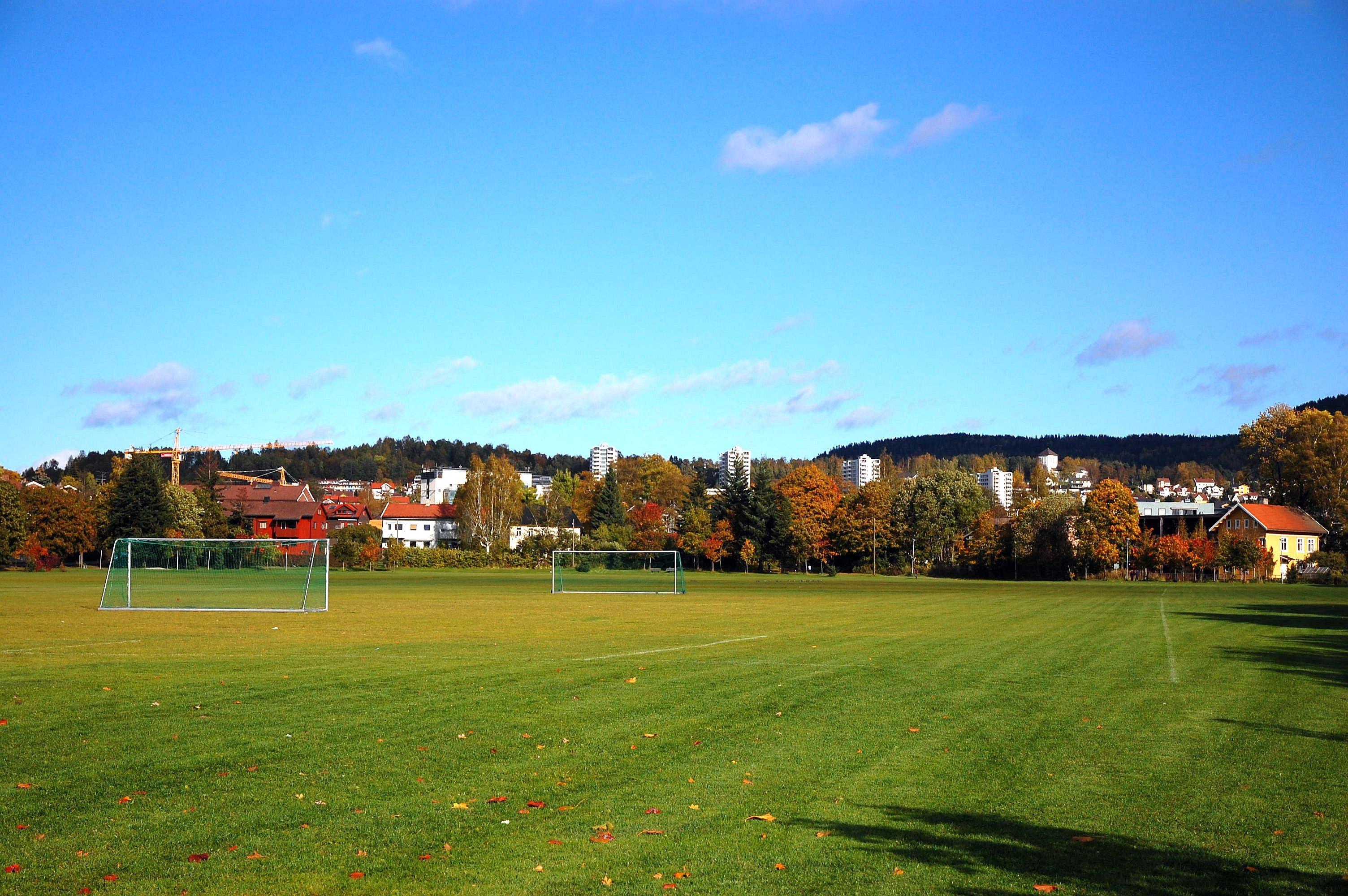 Voldsløkka at Sagene in Oslo